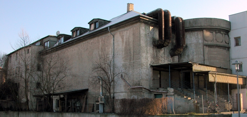 Brunswick, Germany: Rear view of World War II Bunker Kalenwall.